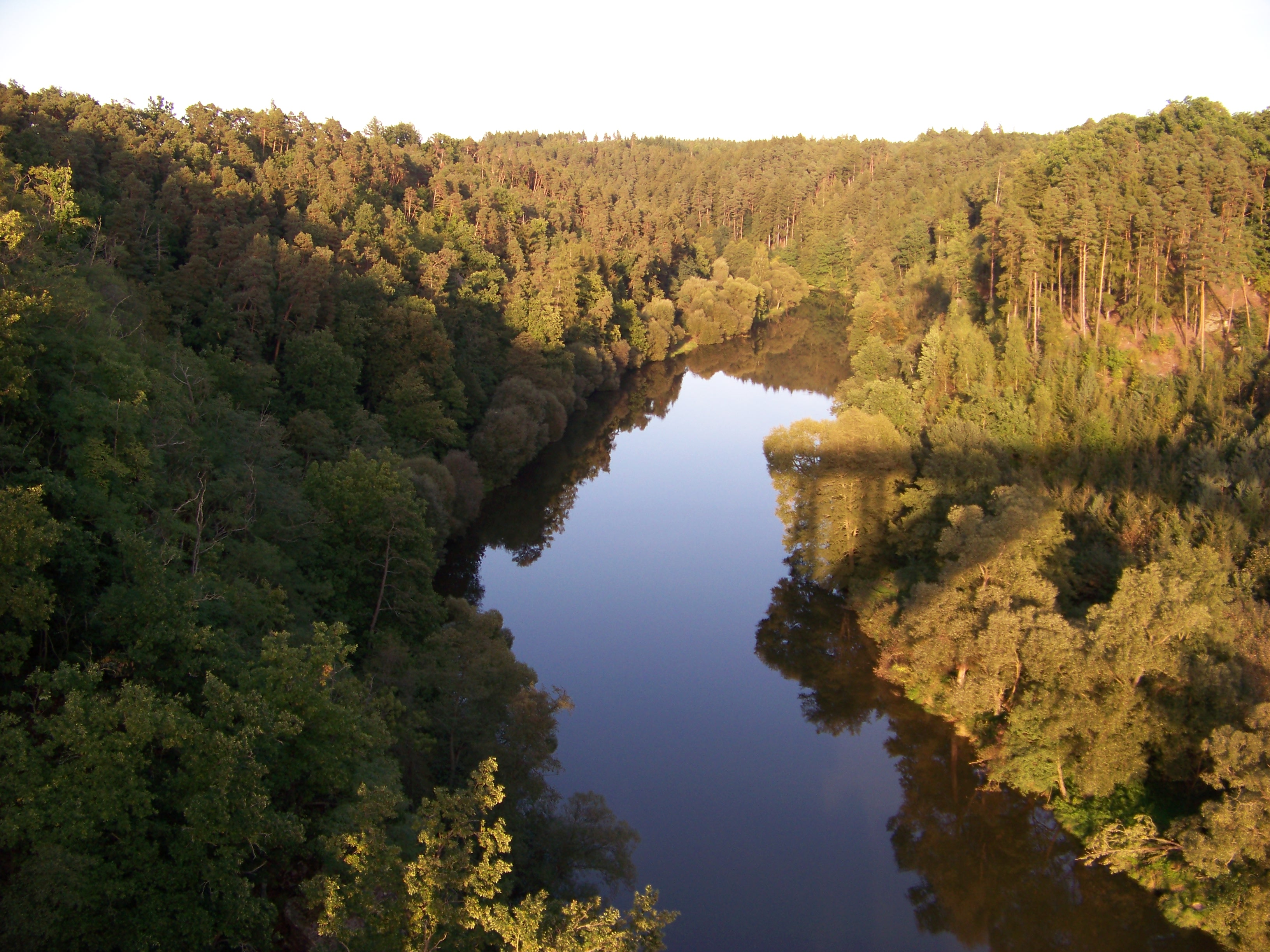 Bechyně and Sudoměřice u Bechyně-Bežerovice, Tábor District, South Bohemian Region, the Czech Republic. Lužnice river with a weir and watermill, seen from Duha (Rainbow) Bridge.